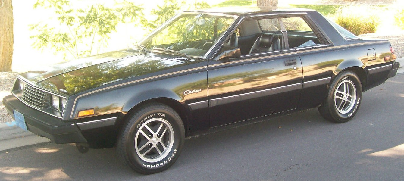 Original example from 1982 of the second generation of the Mitsubishi Galant based Dodge Challenger.